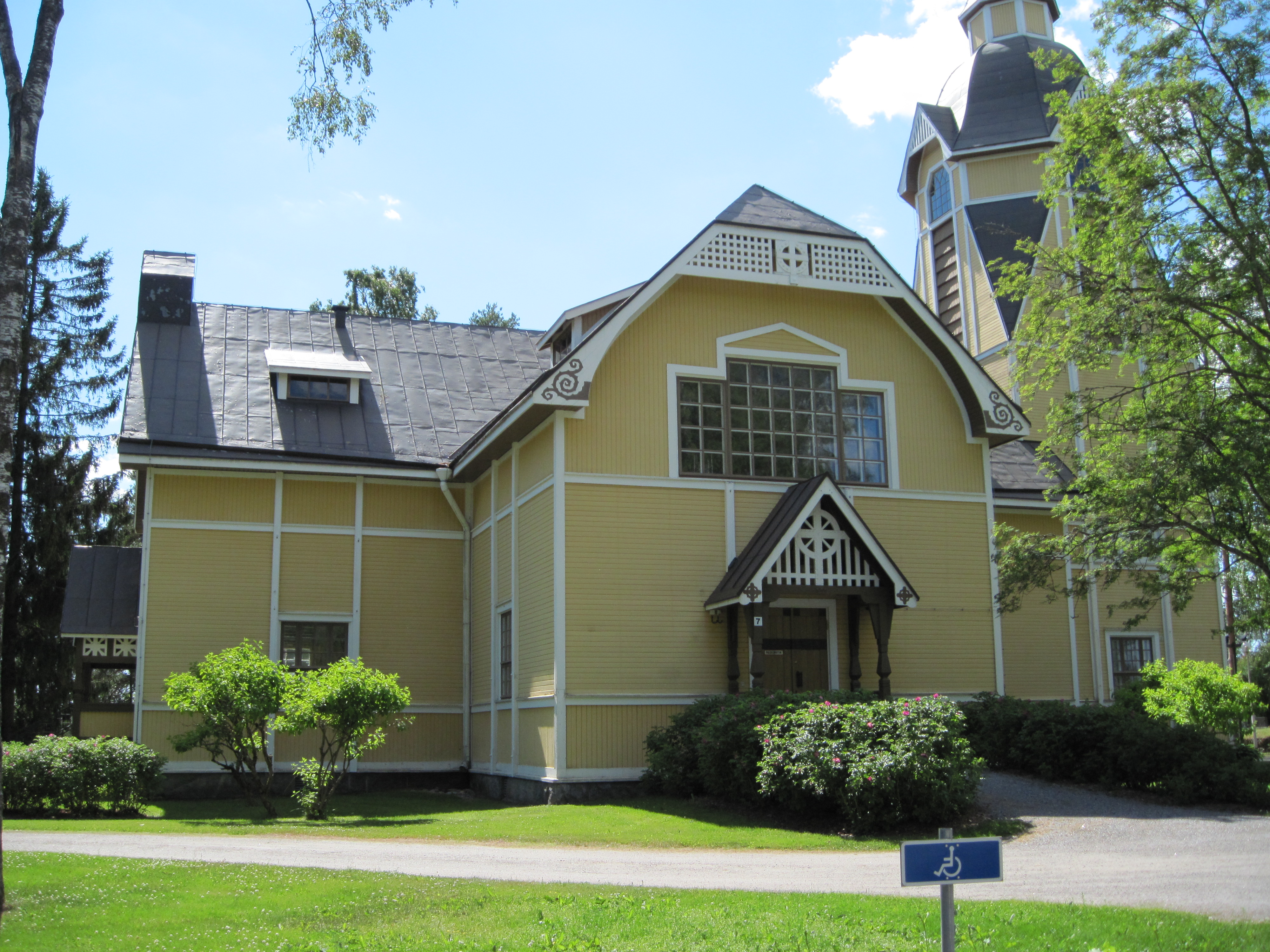 Keikyä Church in former Äetsä - present day Sastamala, southwestern Finland. Designed in the Art Nouveau style by architect Josef Stenbäck, and built in 1912.